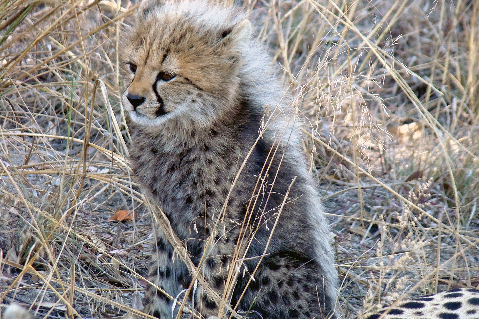 A cheetah (Acinonyx jubatus) cub, in the Sabi Sand Private Game Reserve, South Africa.